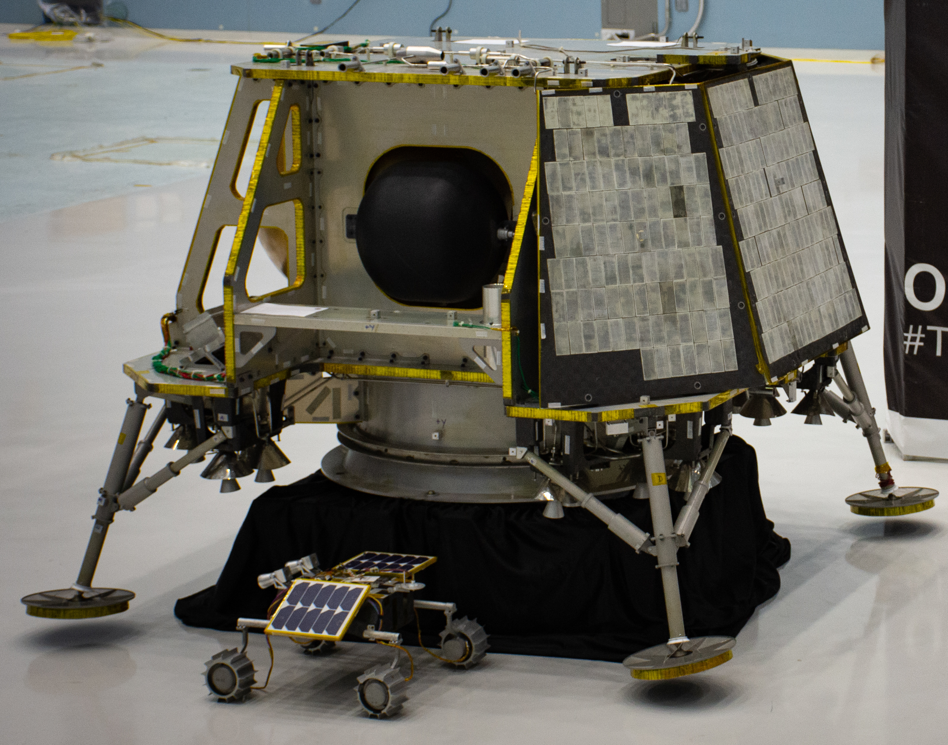 NASA has selected three commercial Moon landing service providers that will deliver science and technology payloads under Commercial Lunar Payload Services (CLPS) as part of the Artemis program. Each commercial lander will carry NASA-provided payloads that will conduct science investigations and demonstrate advanced technologies on the lunar surface, paving the way for NASA astronauts to land on the lunar surface by 2024. The selections are: • Astrobotic of Pittsburgh has been awarded $79.5 million and has proposed to fly as many as 14 payloads to Lacus Mortis, a large crater on the near side of the Moon, by July 2021. • Intuitive Machines of Houston has been awarded $77 million. The company has proposed to fly as many as five payloads to Oceanus Procellarum, a scientifically intriguing dark spot on the Moon, by July 2021. • Orbit Beyond of Edison, New Jersey, has been awarded $97 million and has proposed to fly as many as four payloads to Mare Imbrium, a lava plain in one of the Moon’s craters, by September 2020. This commercial lander from Orbit Beyond of Edison, New Jersey, will carry NASA-provided science and technology payloads to the lunar surface, paving the way for NASA astronauts to land on the Moon by 2024. All three of the lander models were on display for the announcement of the companies selected to provide the first lunar landers for the Artemis program, on Friday, May 31, 2019, at NASA's Goddard Space Flight Center in Greenbelt, Md. Read more: Credit: NASA/Goddard/Rebecca Roth